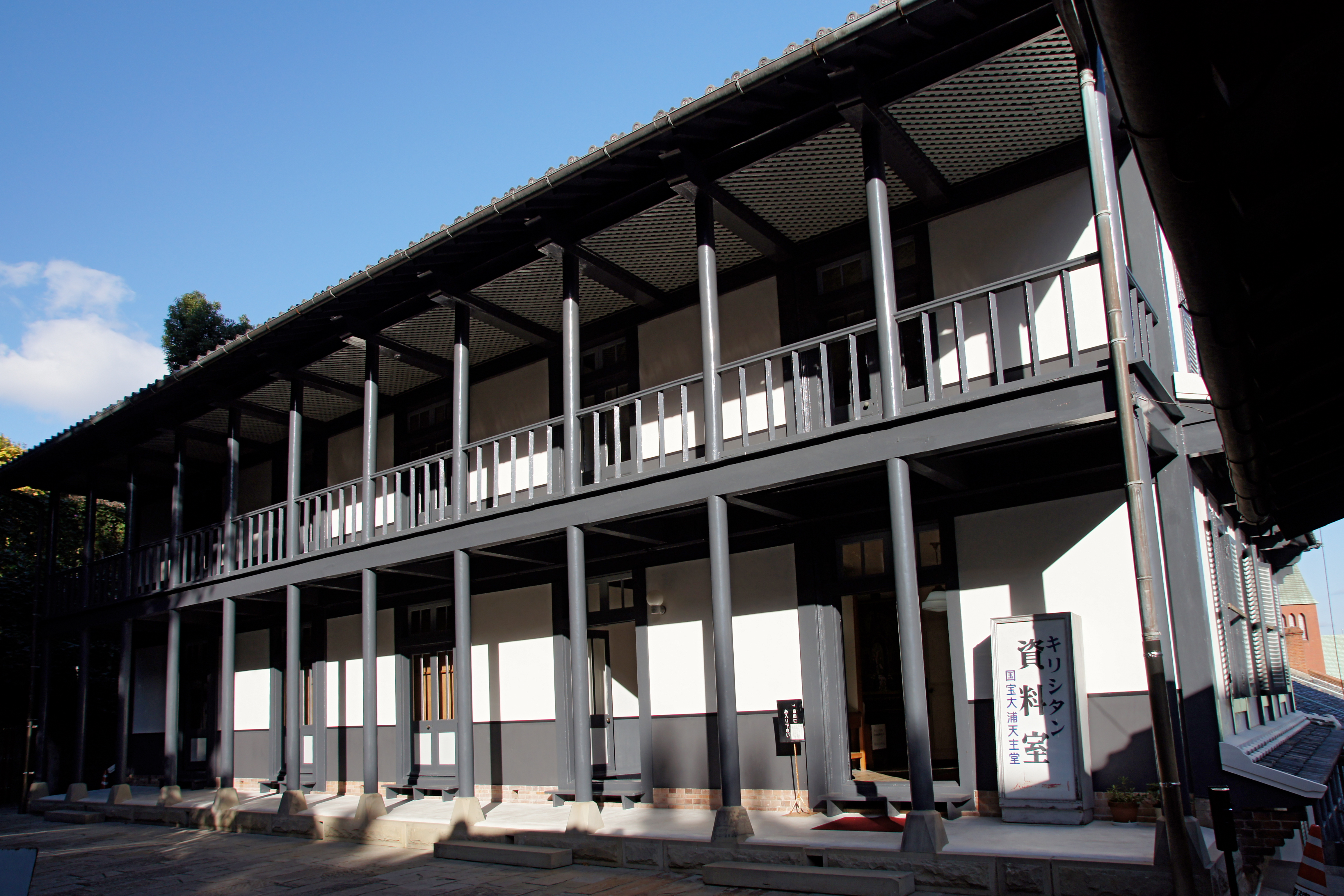 Former Latin Divinity School in Nagasaki, Nagasaki prefecture, Japan